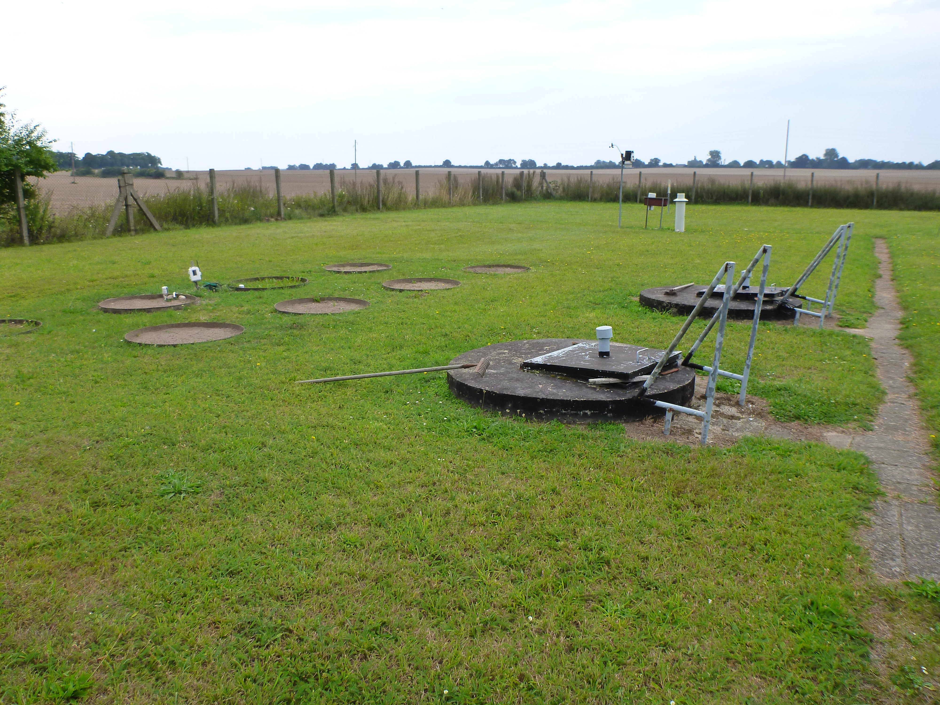 View of the outer rings of lysimeters, operated by the Staatlichen Amt für Umwelt und Natur Neubrandenburg